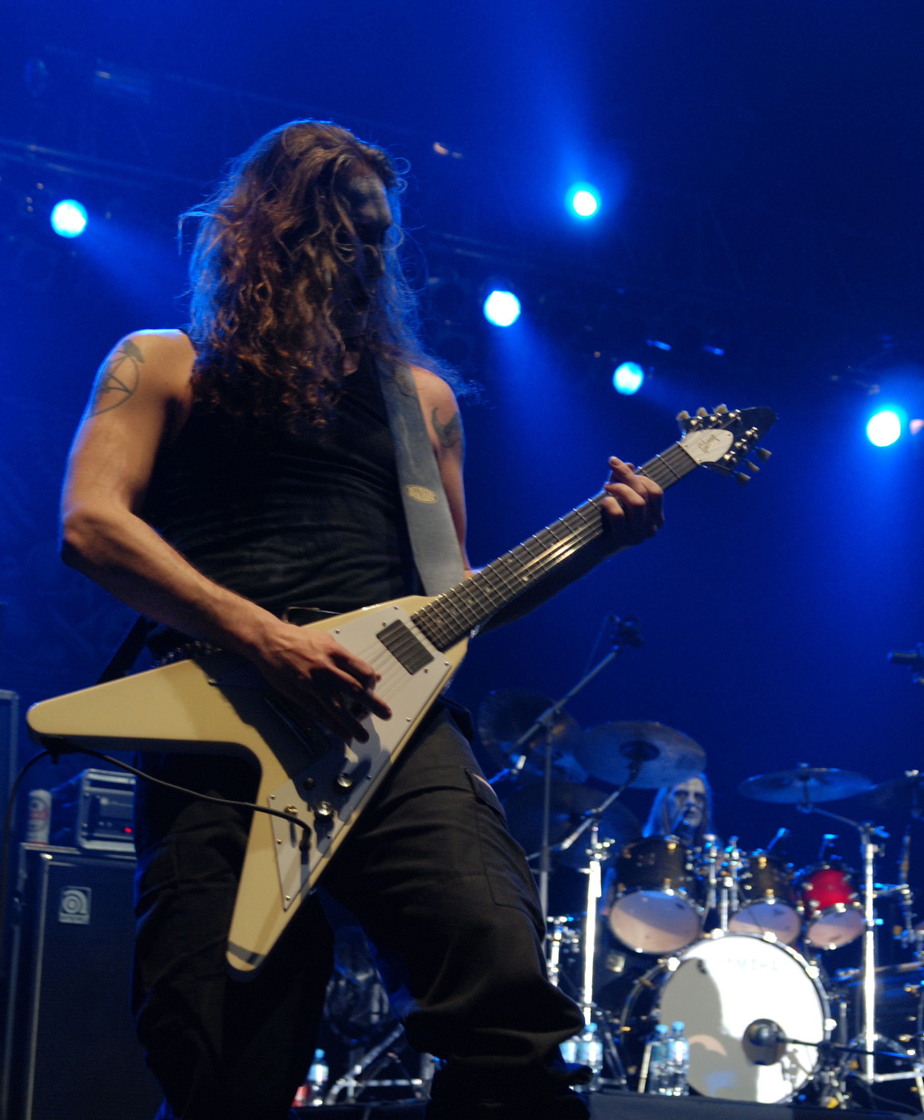 Morgan Steinmeyer Hakansson from Marduk during Metalmania 2008 festival